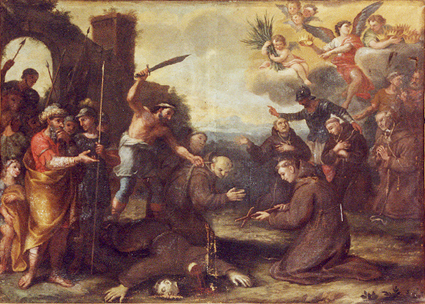 Martyrdom of Saint Daniel Fasanella and companion martyrs